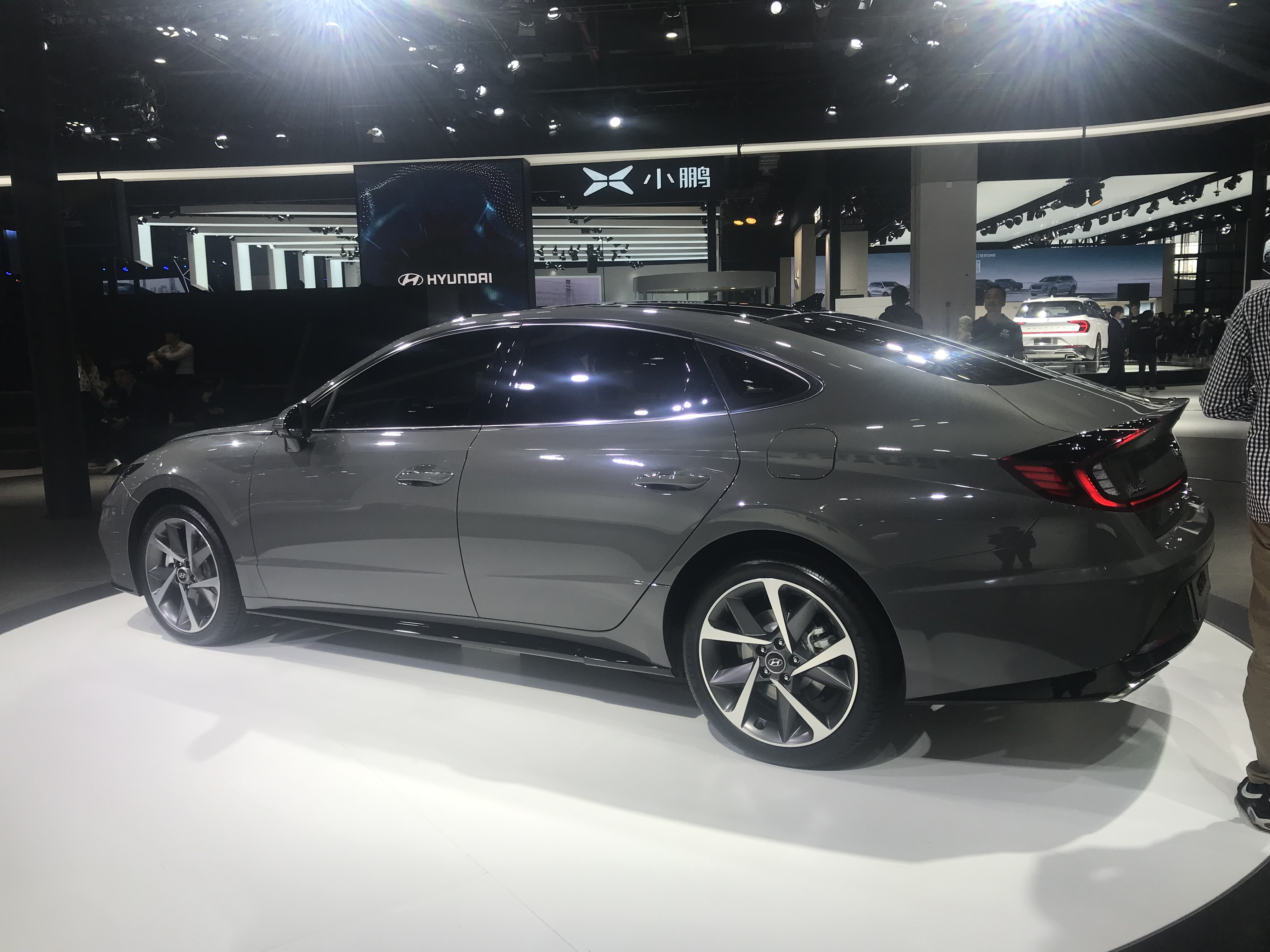 Hyundai Sonata (DN8)